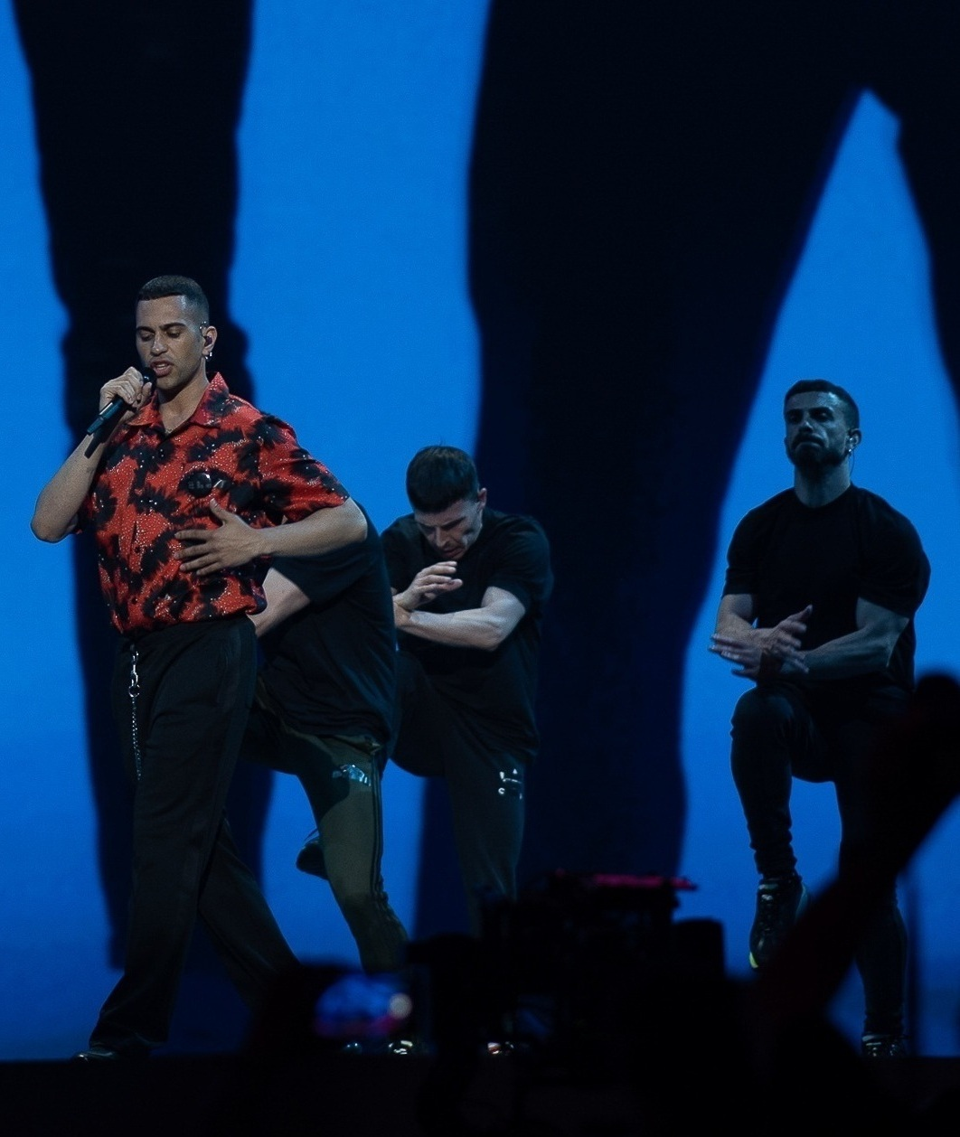 At the 2019 Eurovision Song Contest Grand Final Dress Rehearsal